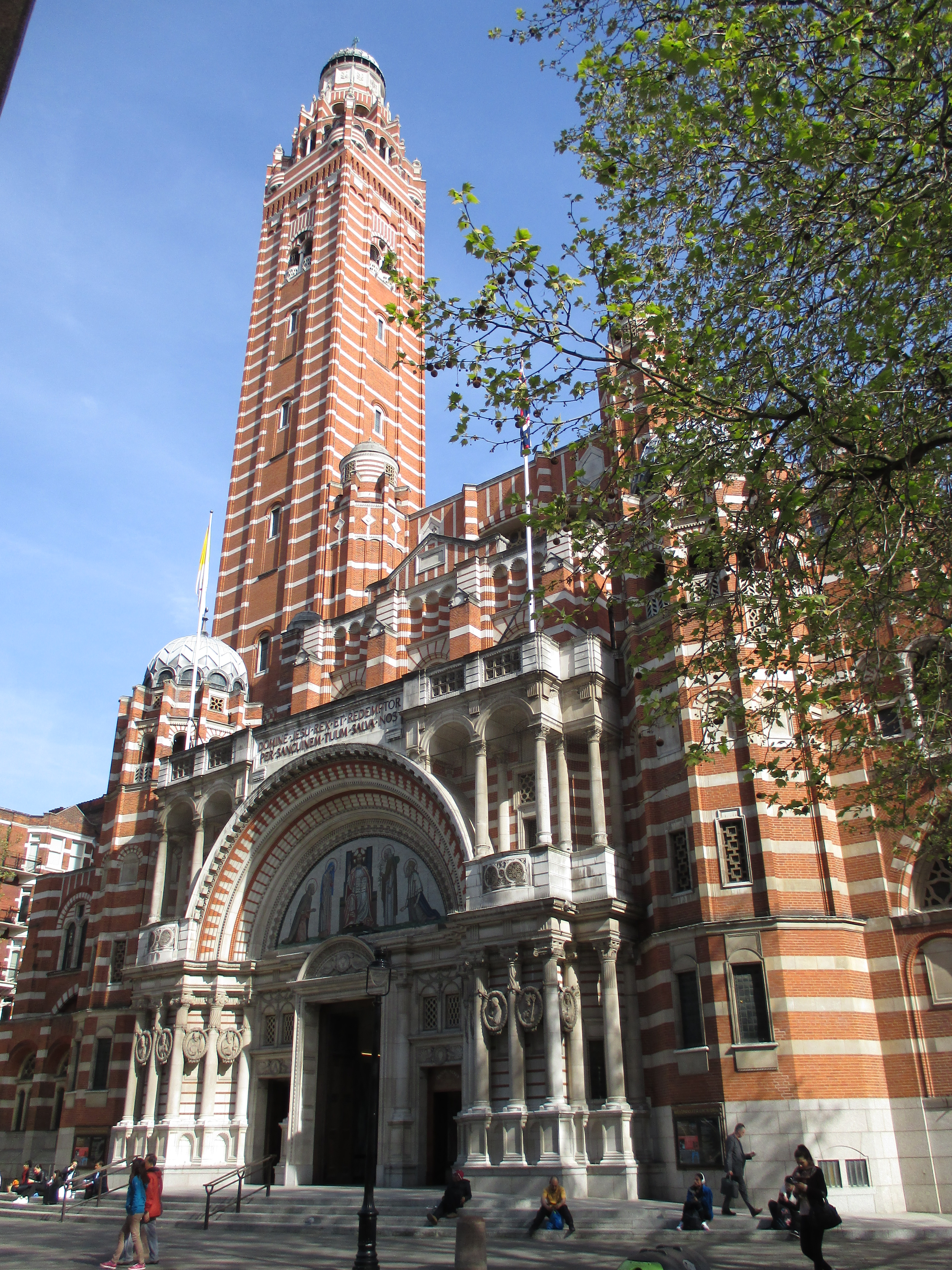 Westminster Cathedral seen from the west.